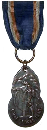 Valley Forge Trail Medal